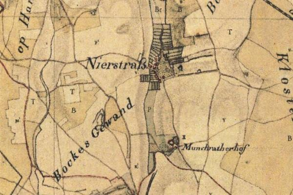 Bocket Tranchot